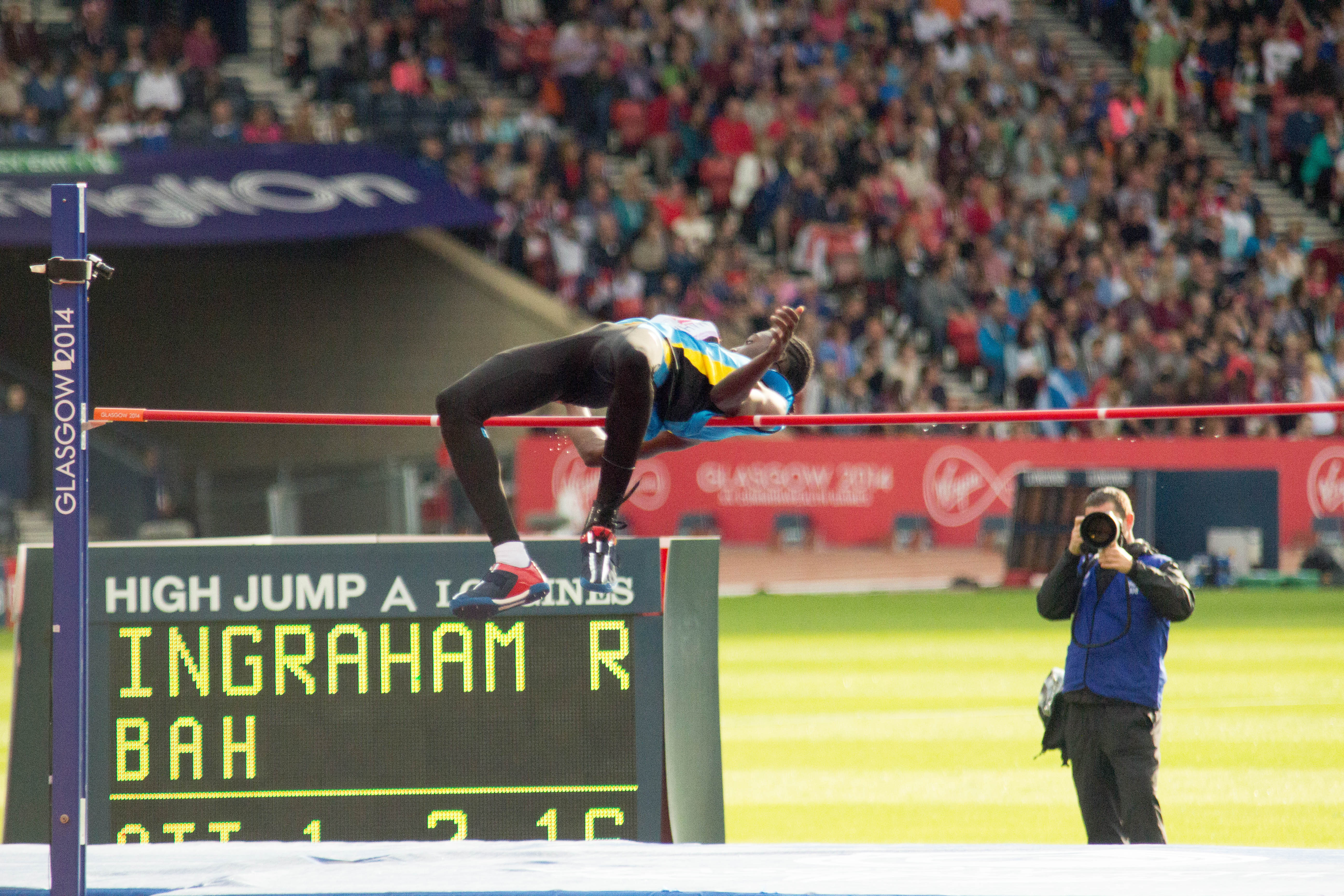 Commonwealth Games 2014 - Athletics Day 4 2014 Commonwealth Games Day 4: Athletics